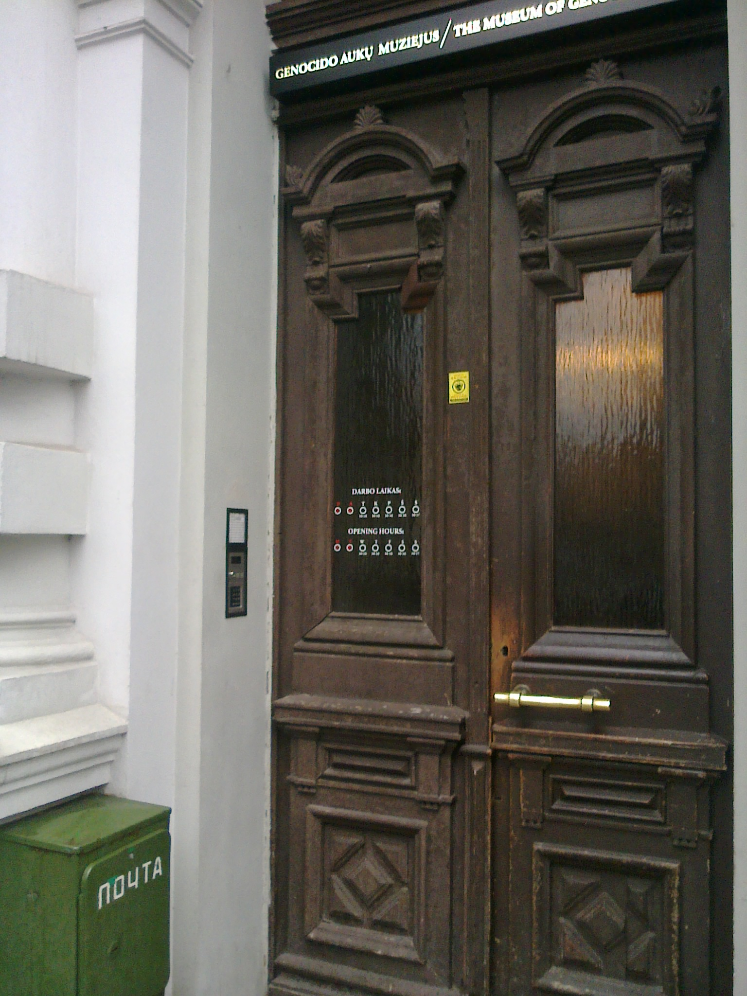 entrance to the Museum of Genocide Victims Vilnius